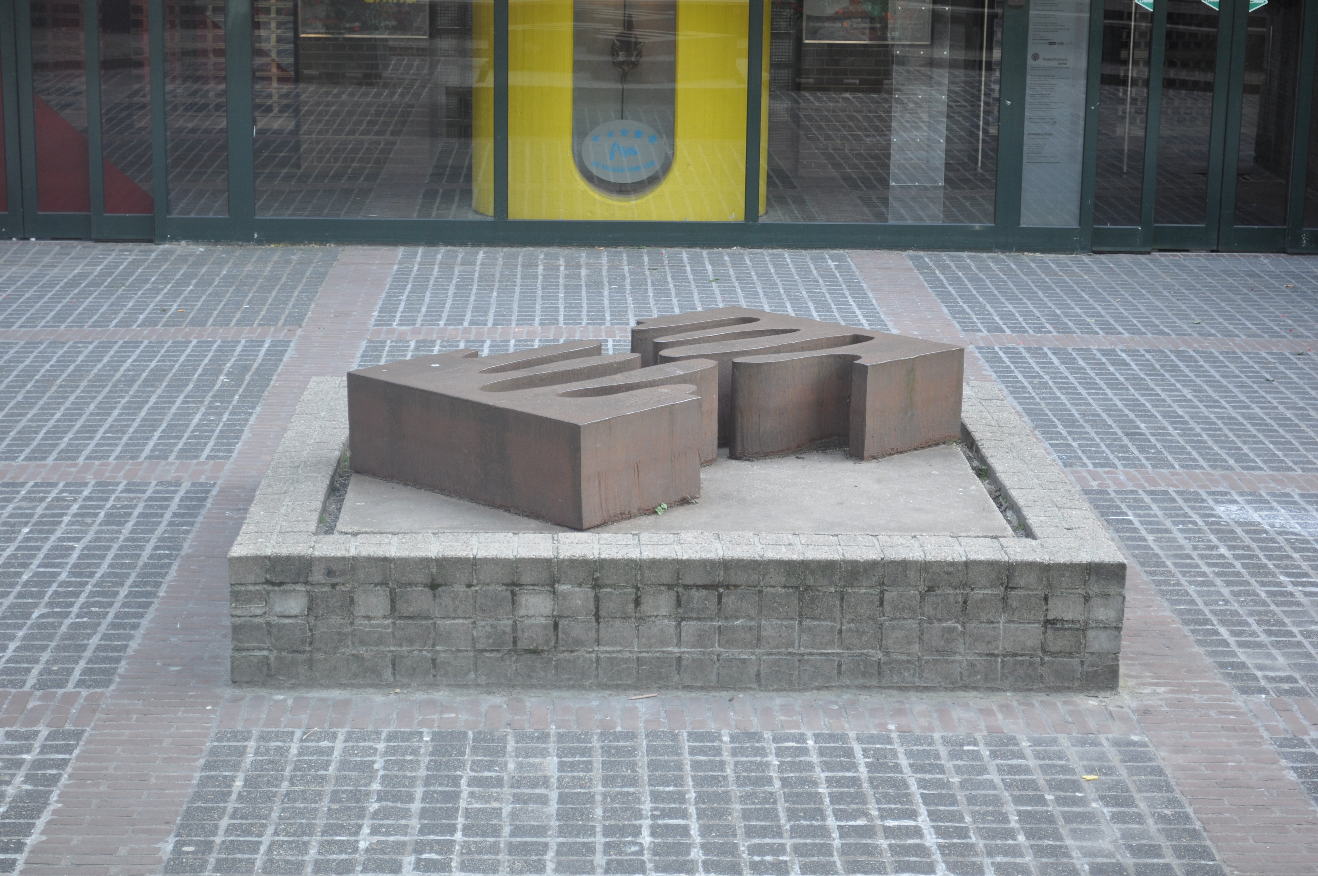 Sculpture "vijfstromenland" by Carel Visser in 1981. Placed at the Linneausstraat in Amsterdam at the side of the KIT Tropenmuseum.